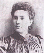 Young image of Teresa Kearney